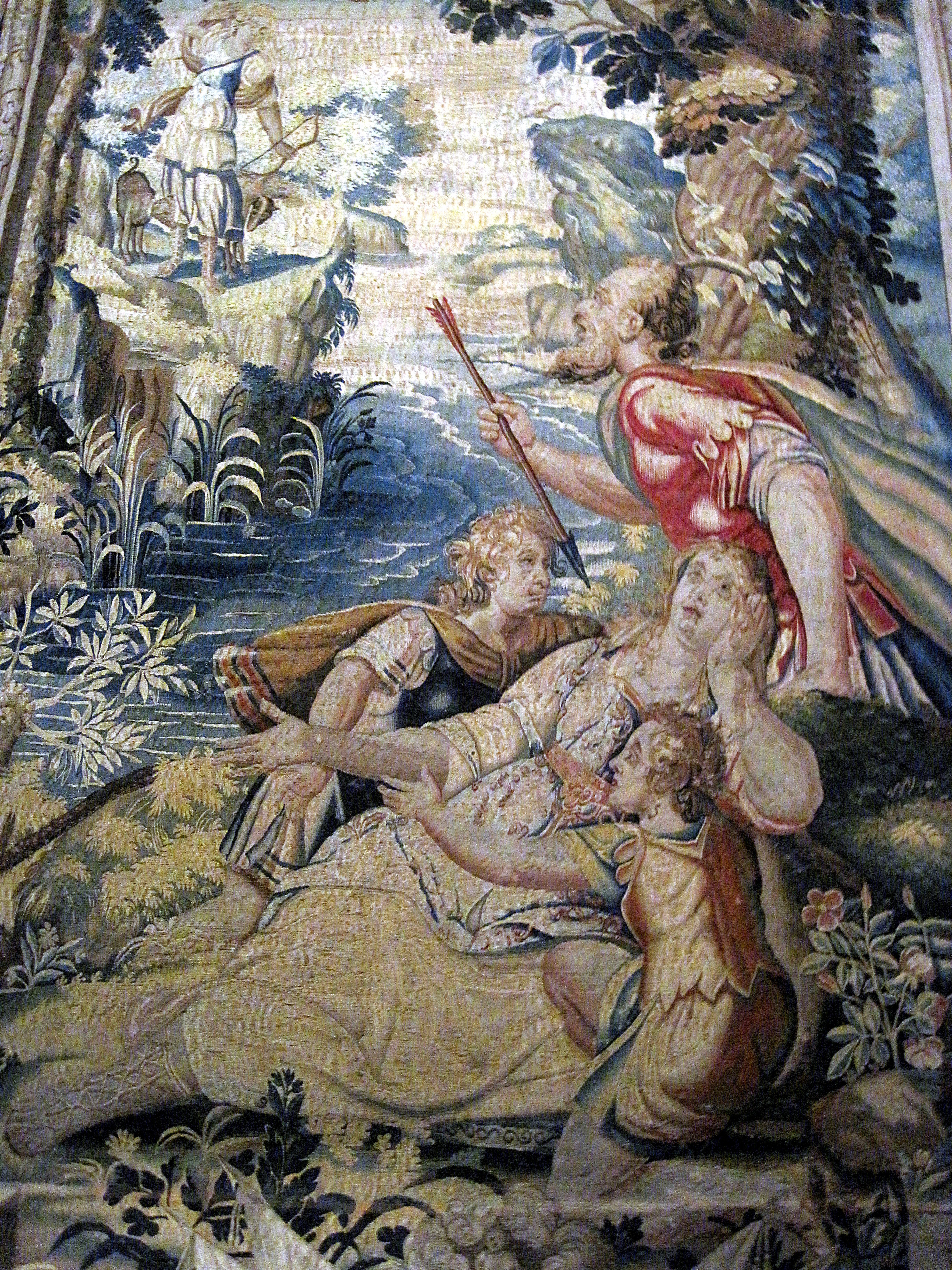 «Chione killed with an arrow supported by her two sons » tapestry executed after the cartoons of Toussaint Dubreuil (Paris 1561 - Paris the 22/11/1602) around 1633 by Raphaël de la Planche, adorning the desk of Nicolas Fouquet in the castle of Vaux-le-Vicomte - Maincy.